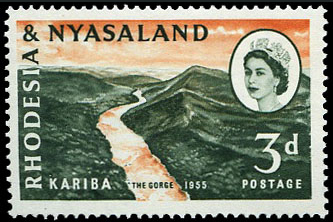 Opening of Kariba Hydro-electric Scheme.